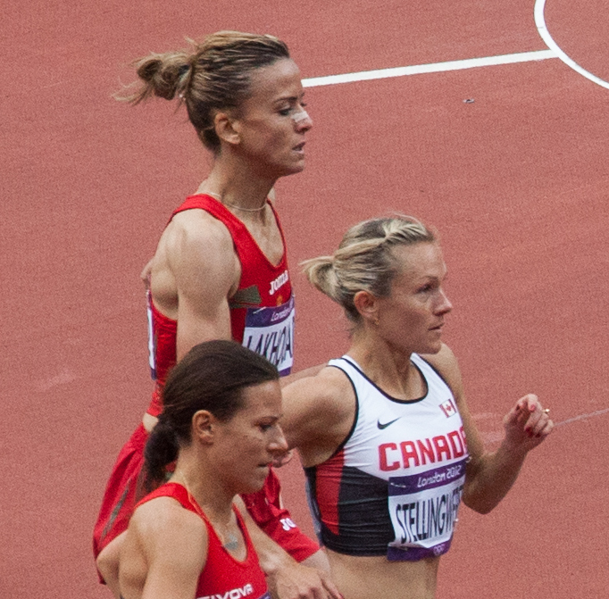 Olympic Stadium, 6 August 2012, London Olympic Games, Women's 1,500 metres heats, Btissam Lakhouad, Marina Munćan, Hilary Stellingwerff